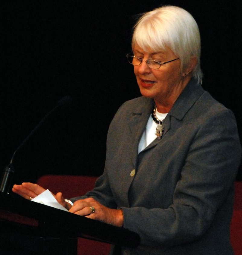 The Hon Margaret Wilson gave the opening address